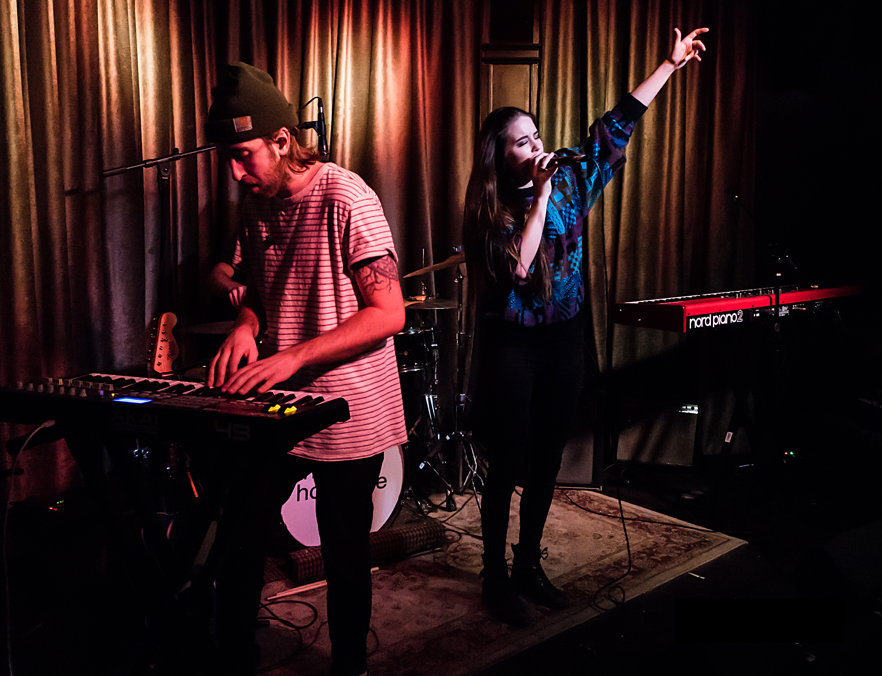 Zealyn at the Hotel Cafe